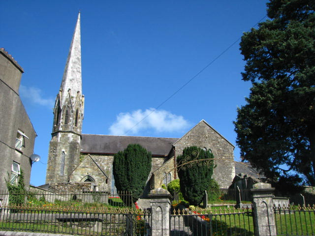 Bandon Church This is a fine Church and graveyard, with steps leading up to the doors. Formerly Christ Church built 1610,only 6 years after the founding of Bandon. It was an important protestant parish church which closed in 1973. This is now the West Cork Heritage Centre.